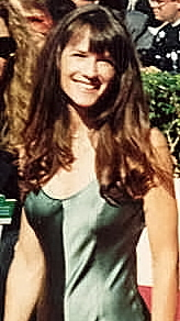 Holly Hunter